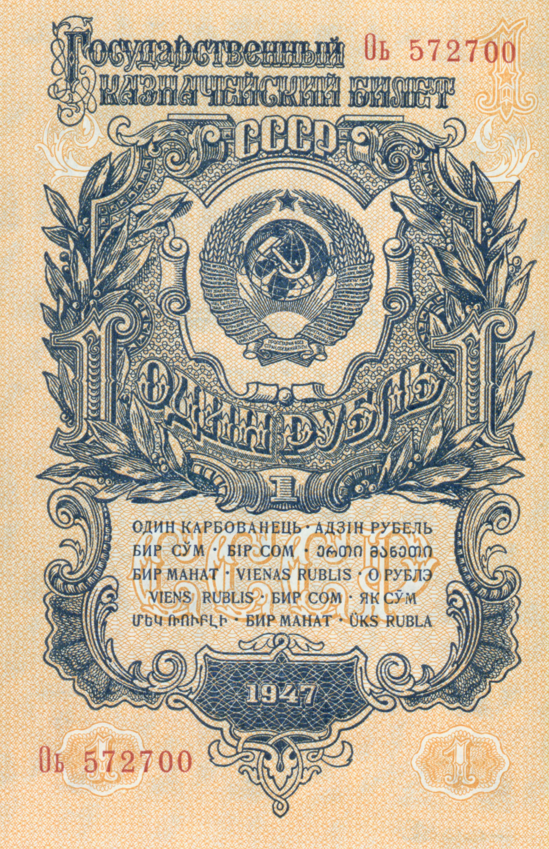 Soviet Union money bill, 1947. See also other side Image:1rouble1947a.jpg. There are two variants of this note. Both with "1947" printed, but one issued in 1947 (with denomination printed in 16 languages), the other issued in 1957 (15 languages), after the Karelo-Finnish SSR (in Russian) is absorbed into Russian SFSR (in Russian). This one is the 1957 variant.